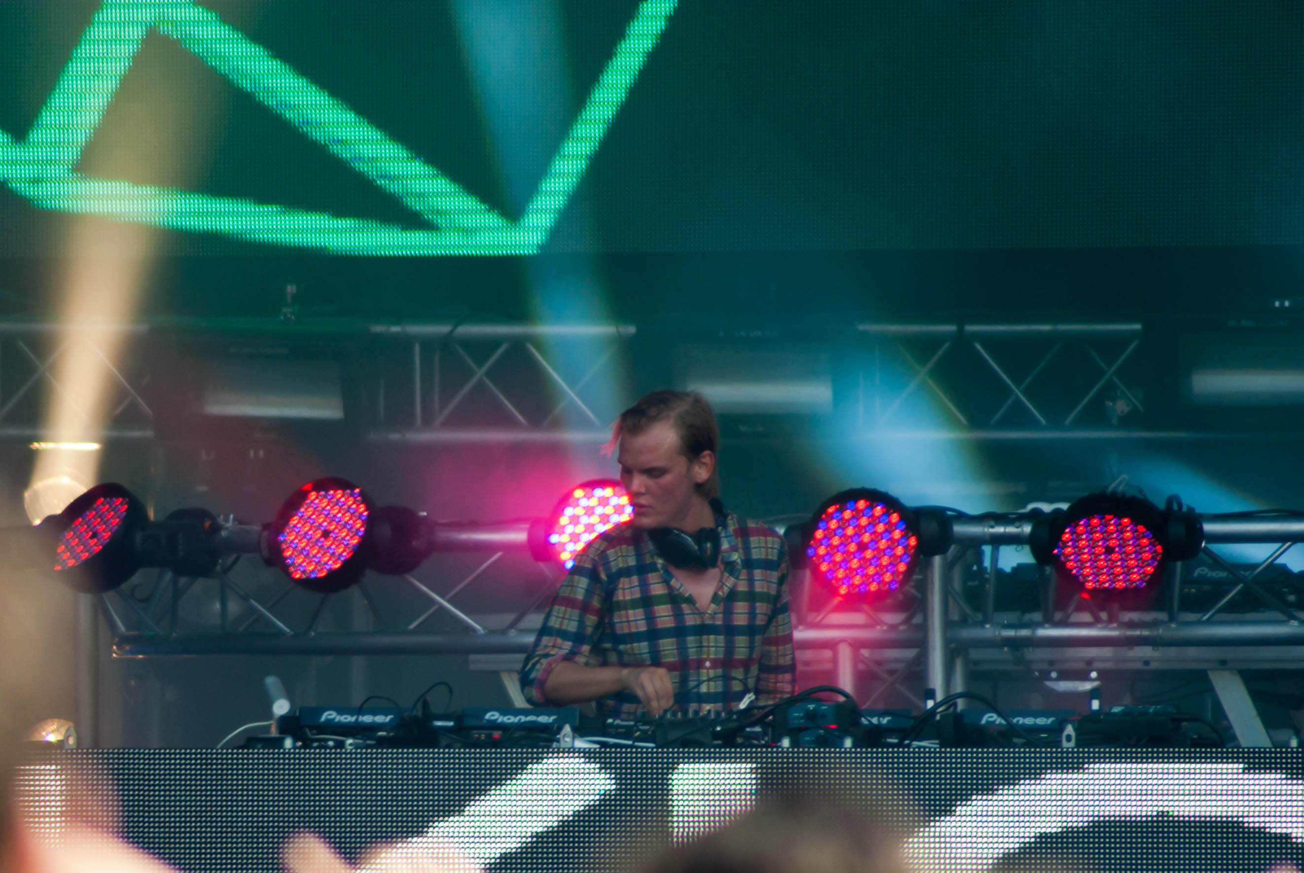 Avicii @ Inox Park Paris Chatou 2011